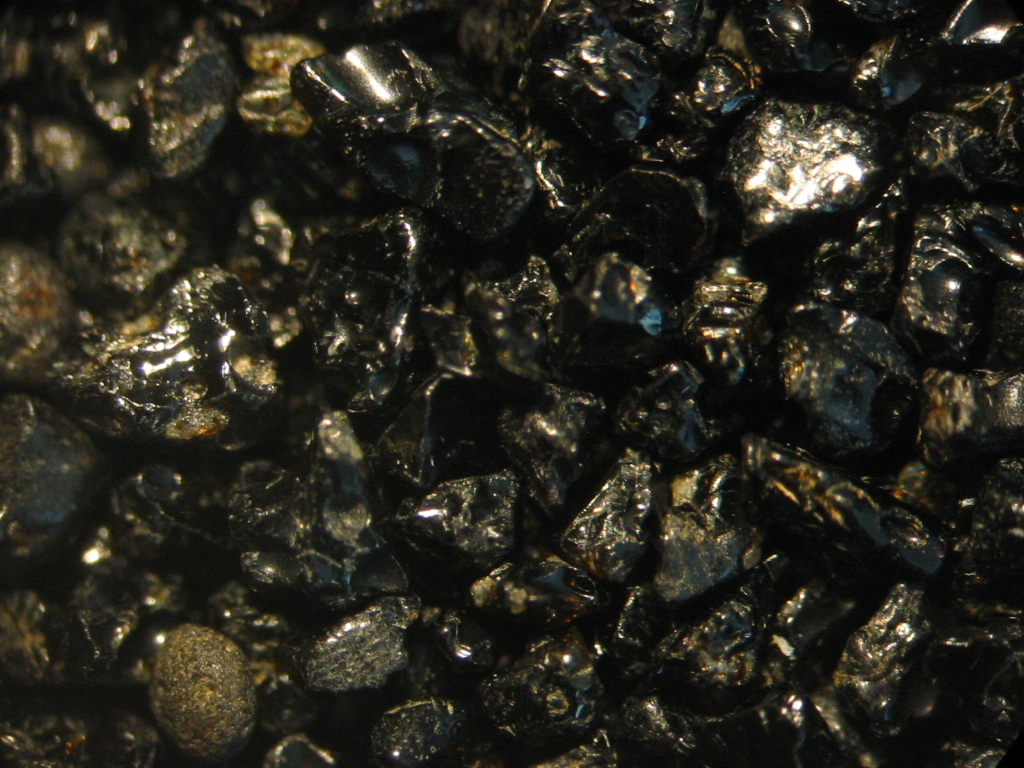 Obsidian sand from Punaluu Black Sand Beach, island of Hawai’i. Magnification: The grains are 0,5 to 1 mm in size. Made with Canon A40 PowerShot digital camera and Novex AP8 microscope, by Renée Janssen.